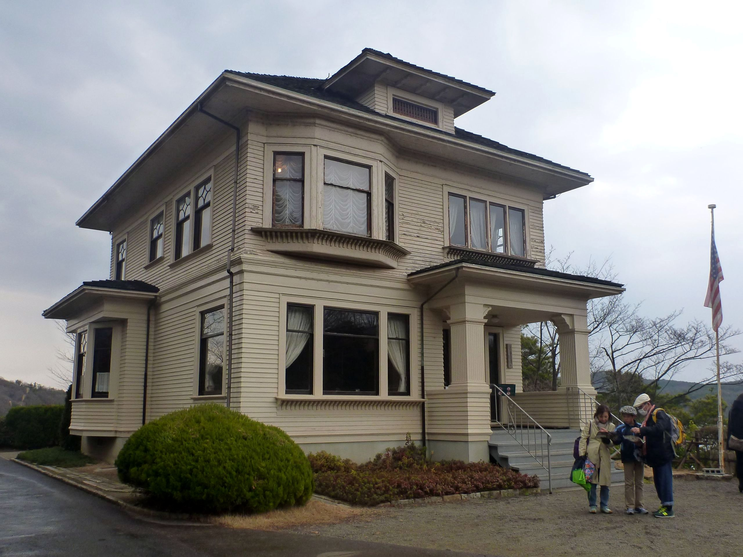 Seattle Japanese Evangelical Church in Meiji-mura. Originally a house built in 1907, in Seattle, Washington, USA, it was later used as a church there by Japanese immigrants. The building was relocated to the Meiji-mura museum in Japan after 1982.